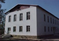 a former hospital at Bagram Airbase